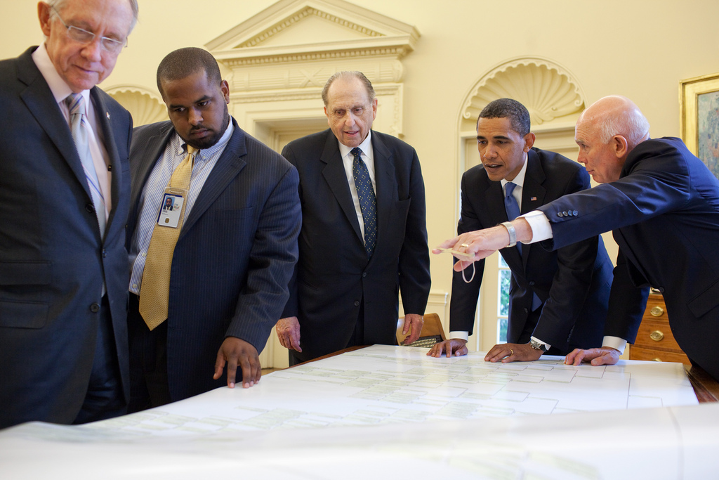 President Barack Obama looks at a genealogy chart in the Oval Office with (from left) Senator Majority Leader Harry Reid, Joshua DuBois, Thomas S. Monson, and Dallin H. Oaks. This compilation of Obama's genealogy information was a gift of The Church of Jesus Christ of Latter-day Saints.